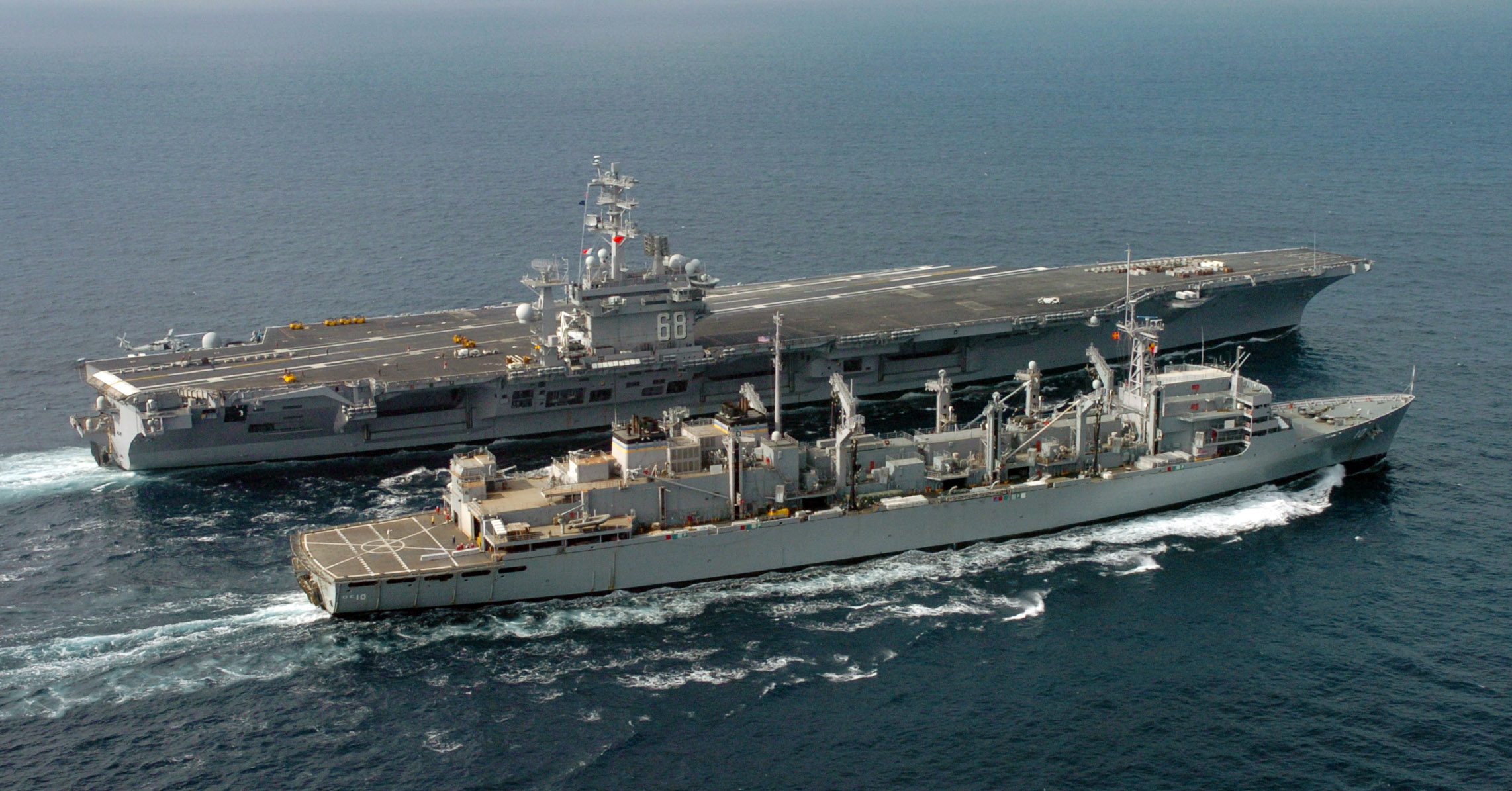 Pacific Ocean (Feb. 11, 2006) - The nuclear-powered aircraft carriers USS Nimitz (CVN 68) sails along side of he Military Sealift Command (MSC) fast combat support ship USNS Bridge (T-AOE 10) after a replenishment at sea (RAS). Nimitz is currently preparing for a major propulsion plant examination off the coast of southern California.